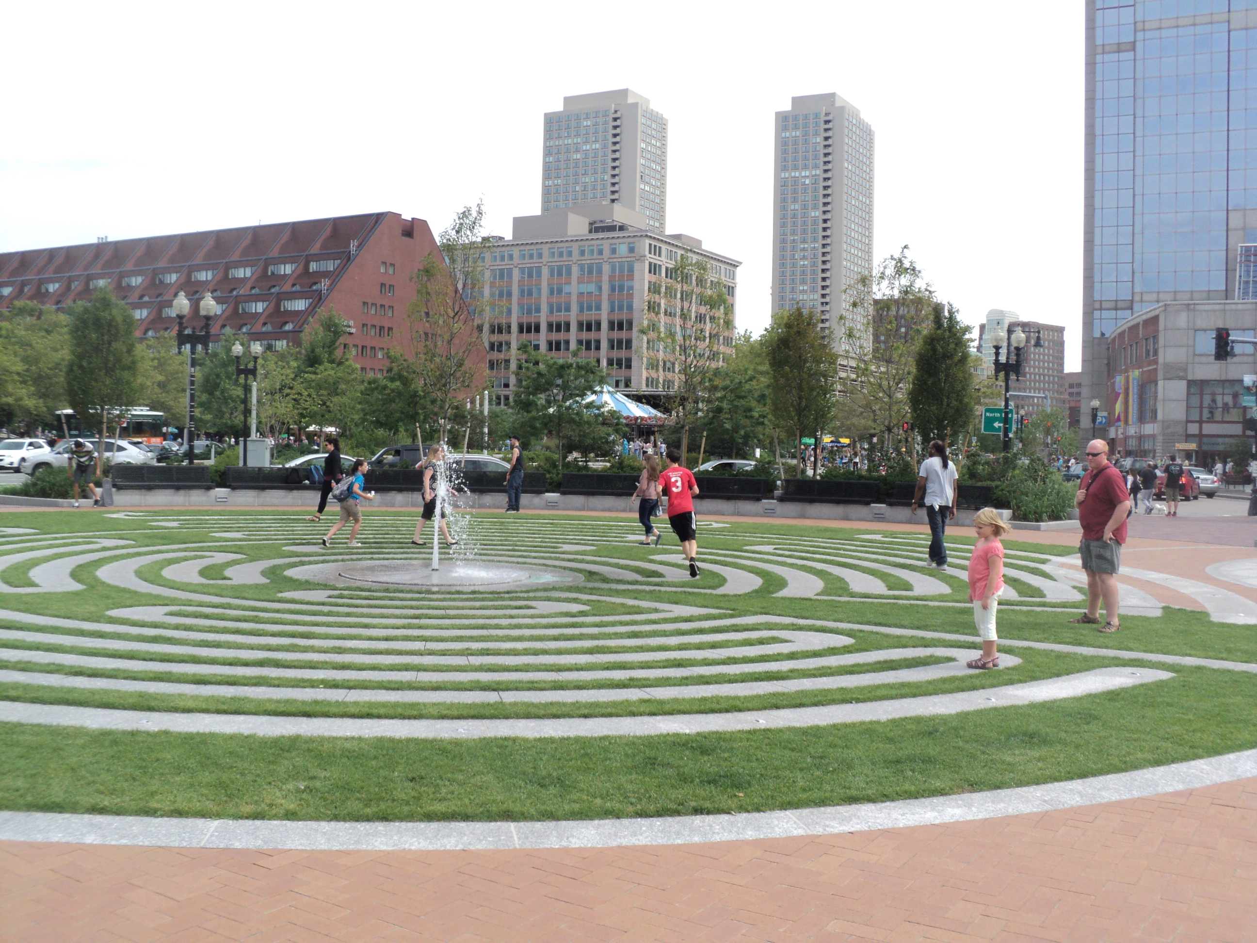 Armenian Heritage Park